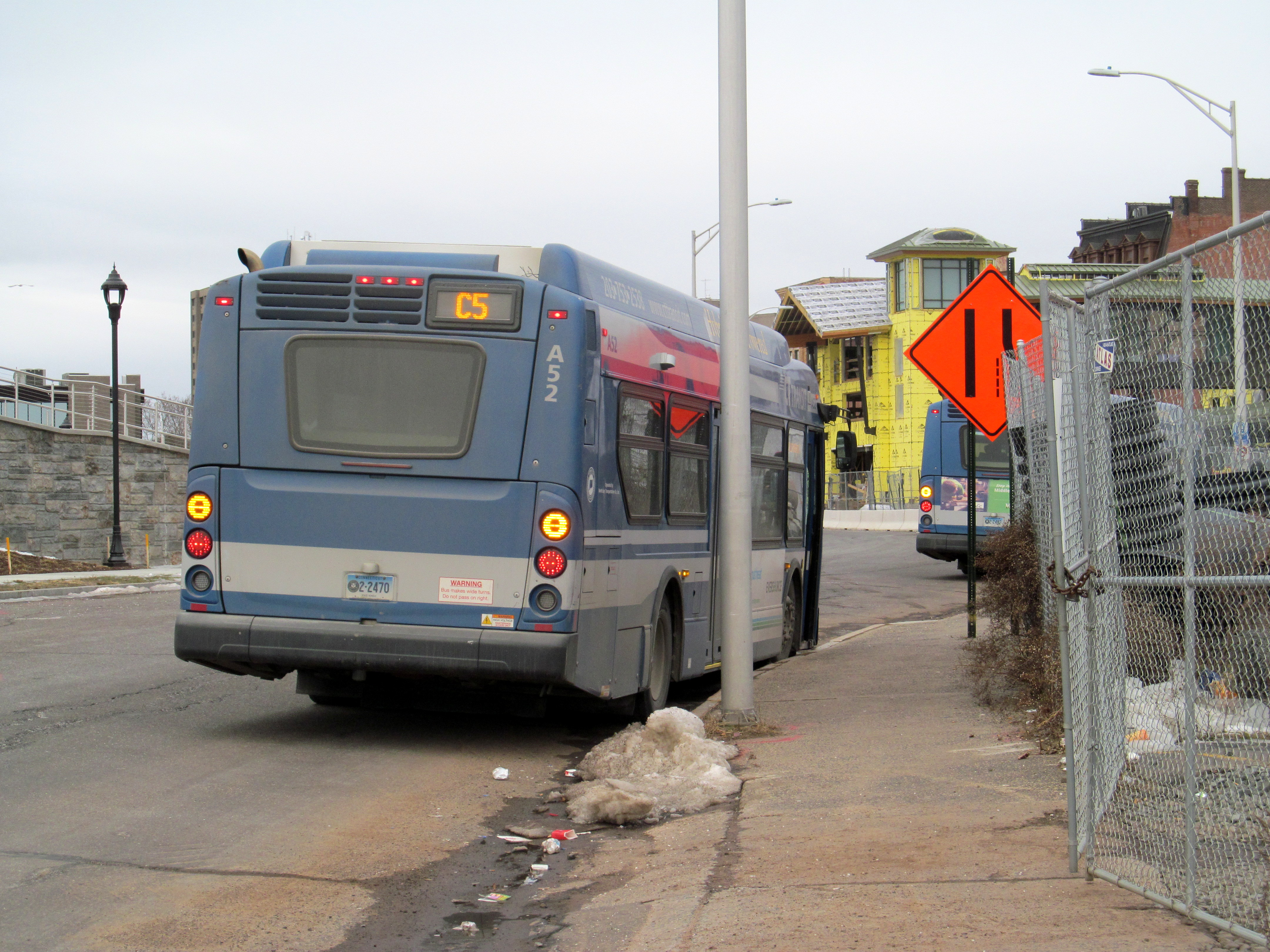 CT Transit route C5 bus in Meriden in December 2016, with construction of the new Meriden station in the background